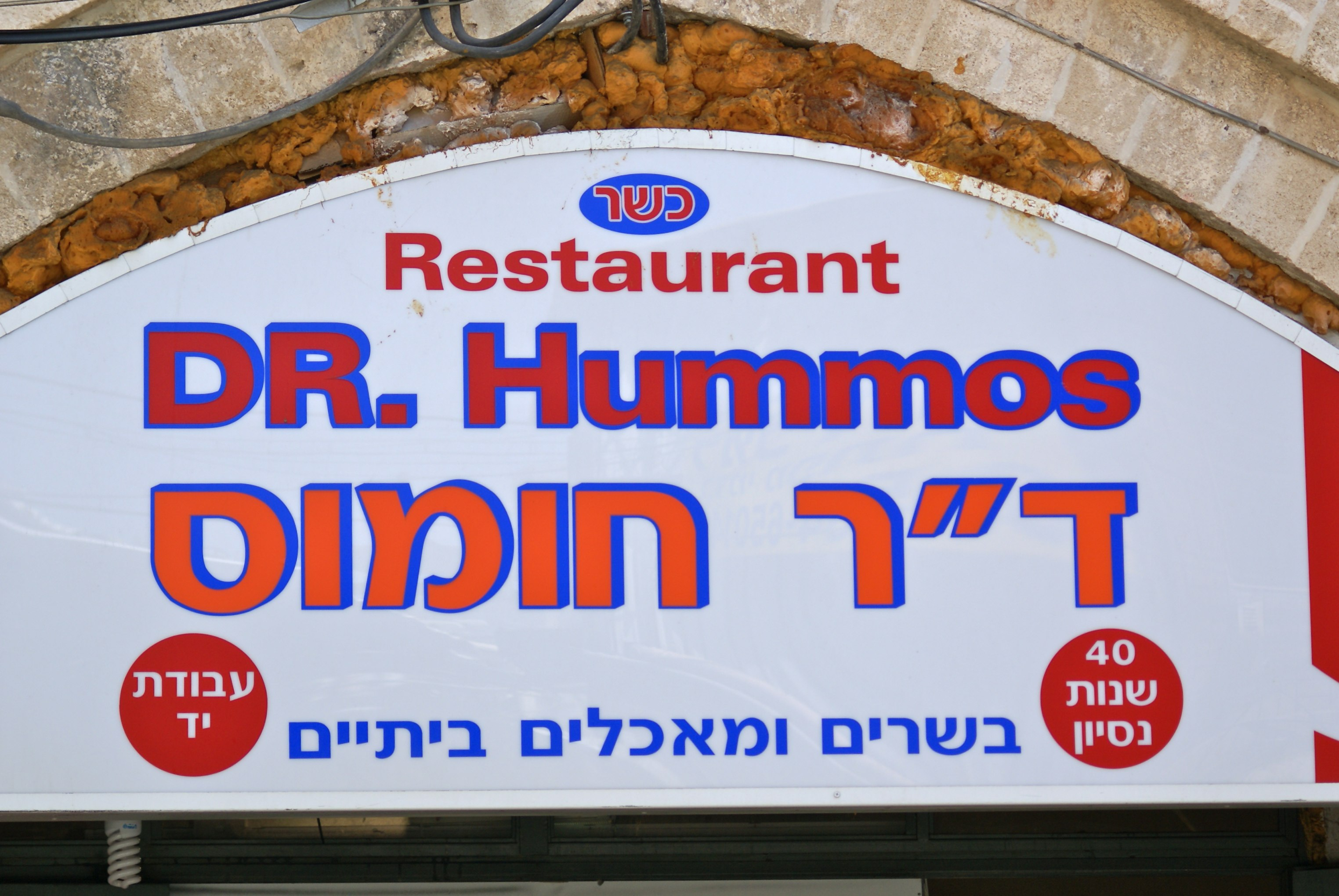 A photo of a popular hummusiya, a restaurant serving hummus, in Yafo, Israel.